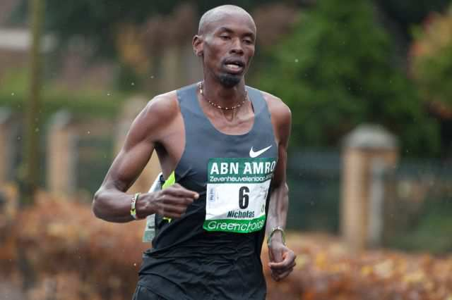 Long distance runner Nicholas Kipkemboi